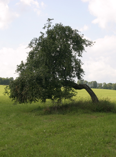 Object: Unusual shape of a tree in Vermont Source: self Photographer: Nils Fretwurst / Foto: Nils Fretwurst Date: August 2005